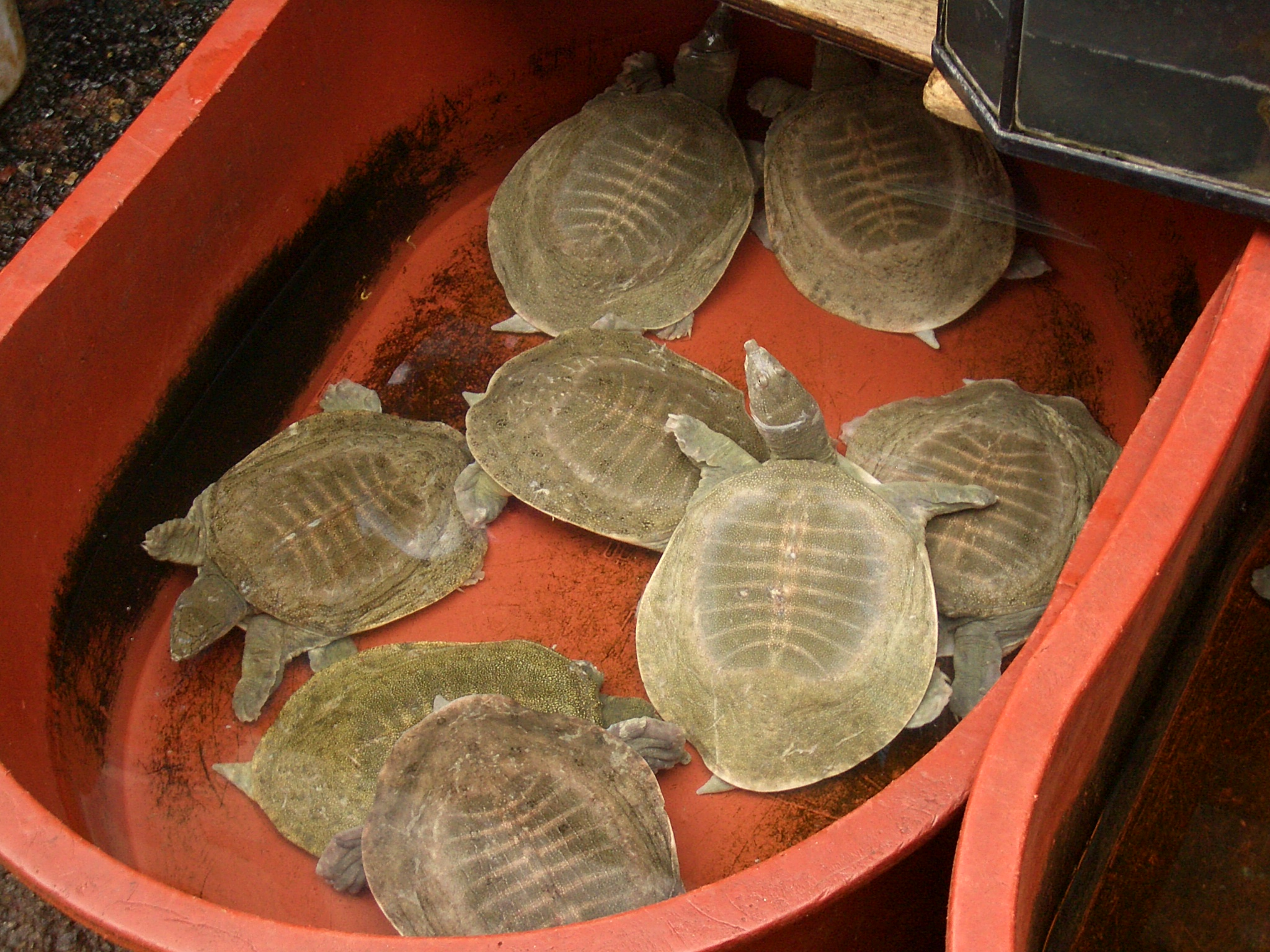 Live Chinese soft-shell turtles sold in a ginseng-and-matsutake shop in Namdaemun Market, Seoul.